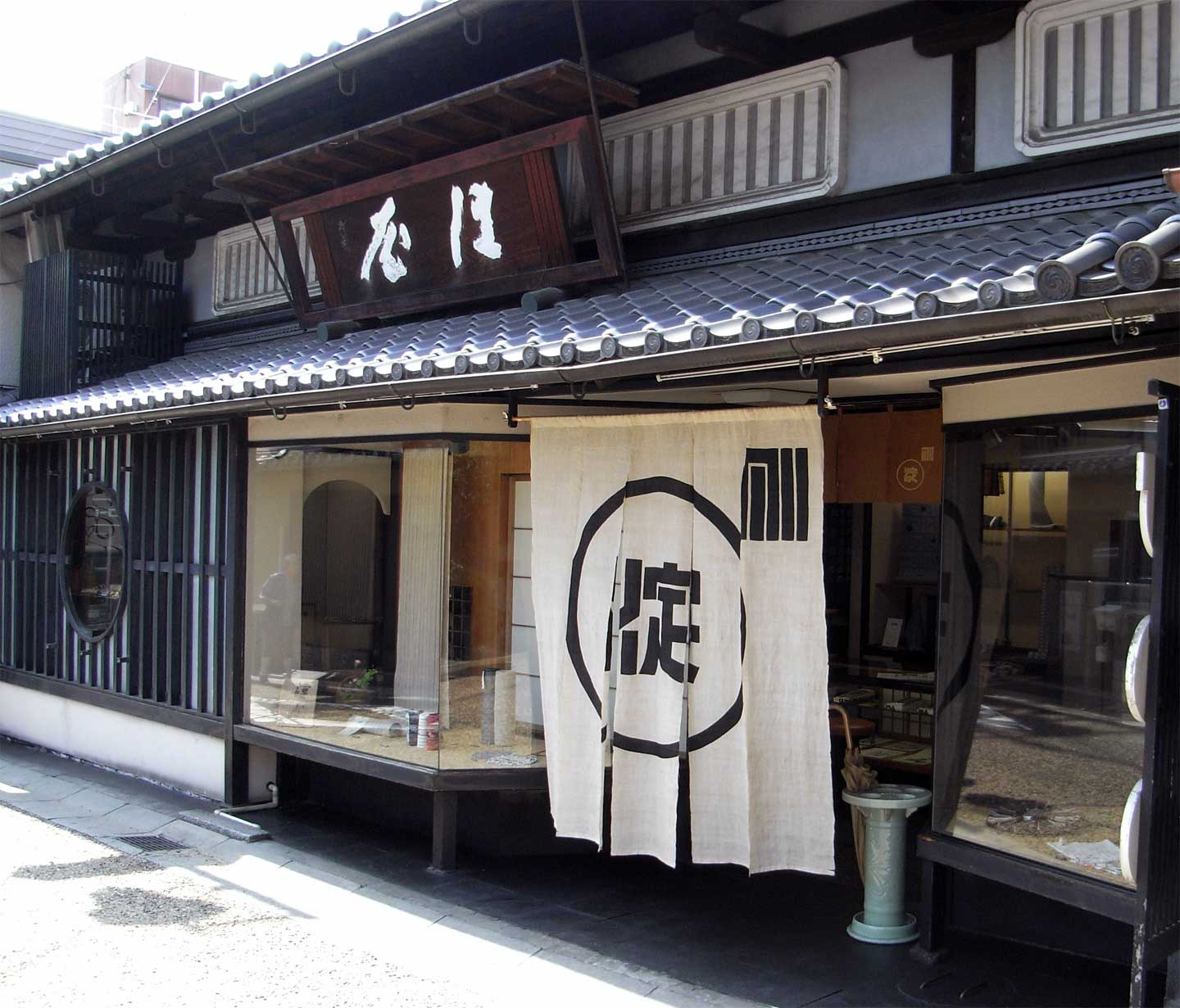 Traditional fabric shop near the Sarusawa pound in Nara.